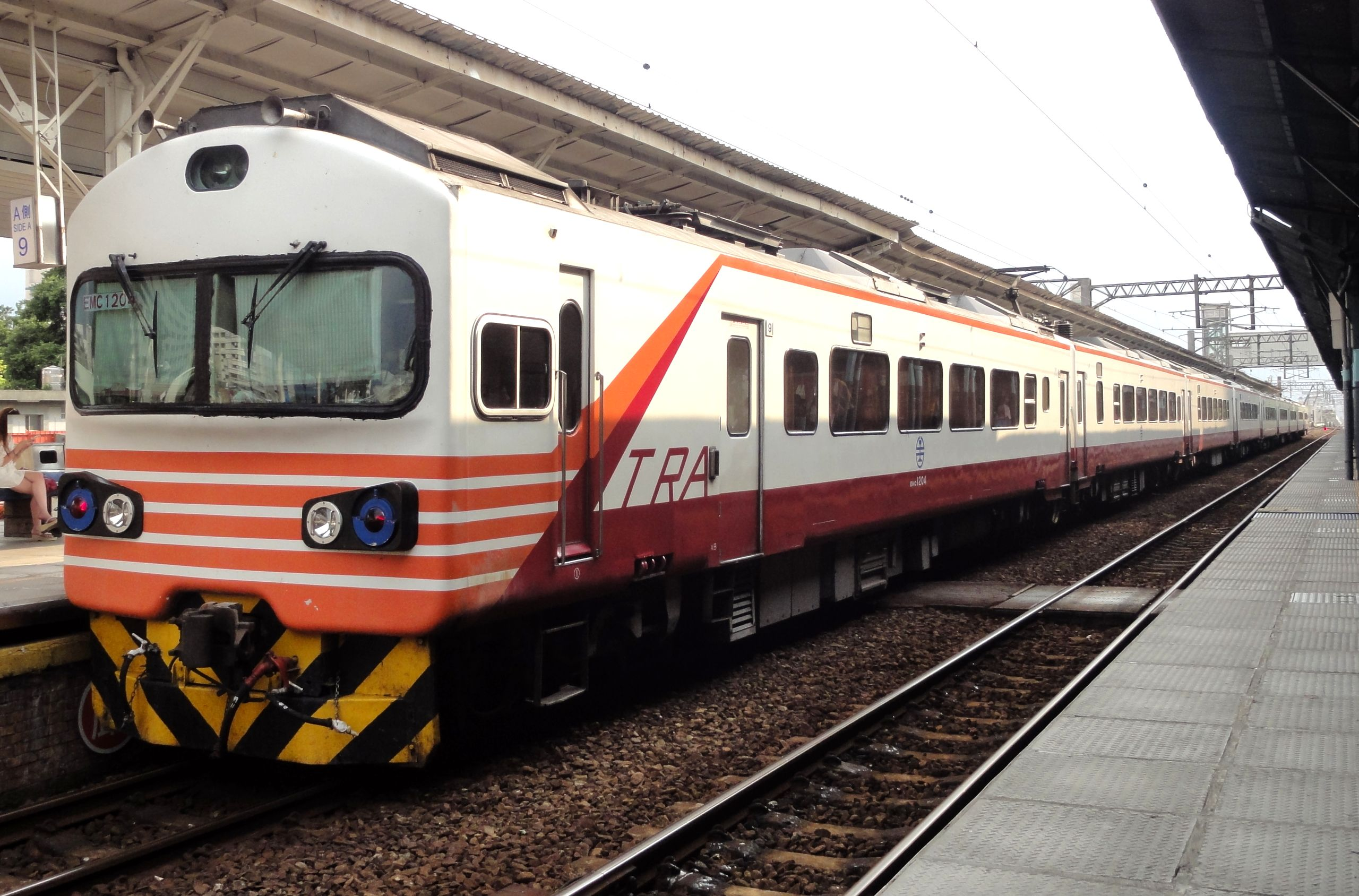 TRA EMU1204 at Taichung Station. 中文（台灣）: 臺灣鐵路管理局電聯車EMU1204於臺中車站。